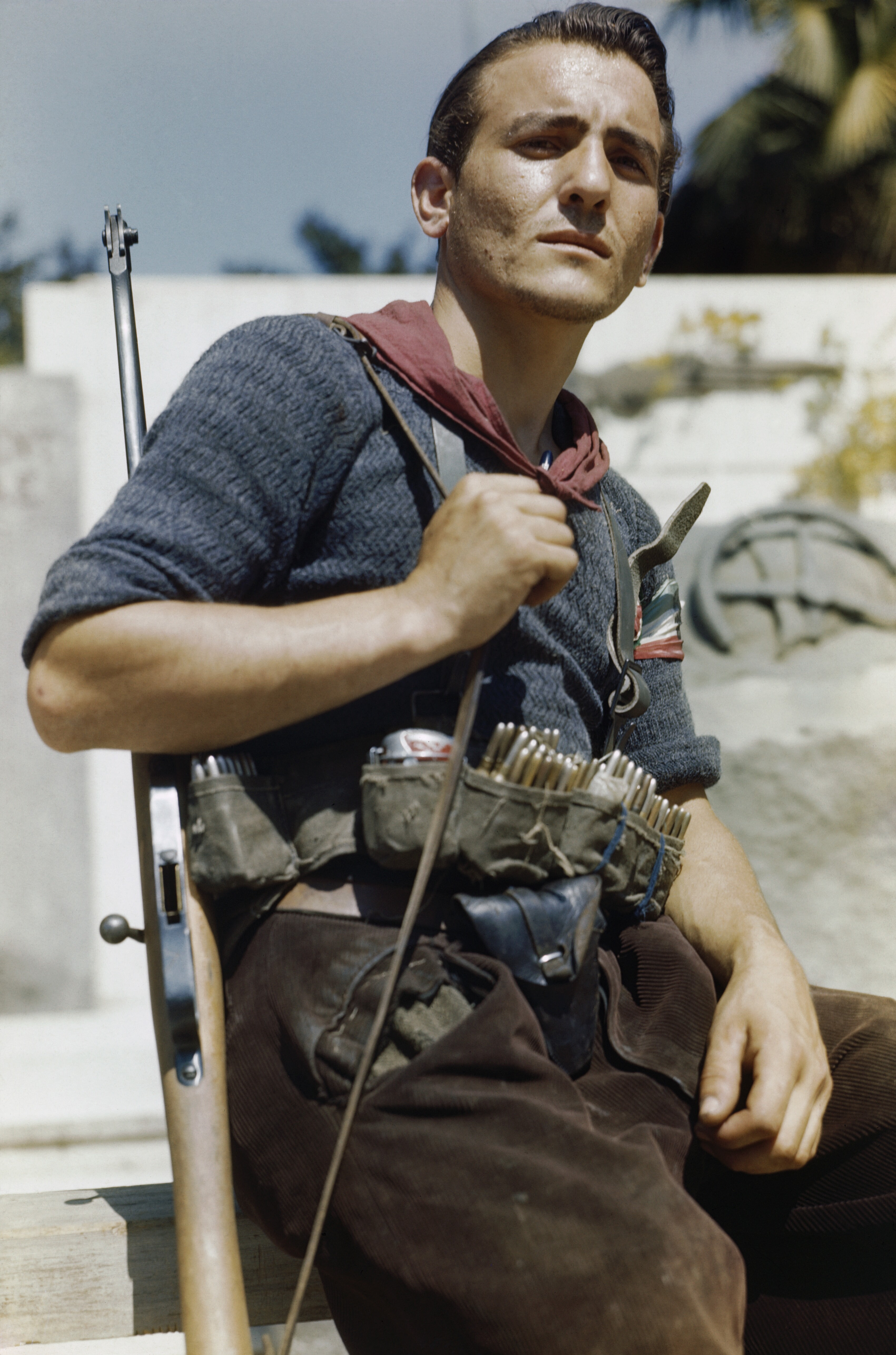 An Italian partisan in Florence, 14 August 1944. Senor Prigile, an Italian partisan in Florence. British troops were ordered to avoid fighting the Germans in the precincts of the city of Florence. Italian Partisans, occupying the Fortress Di Basso exchanged fire with the German snipers that remained after the German forces evacuated Florence.